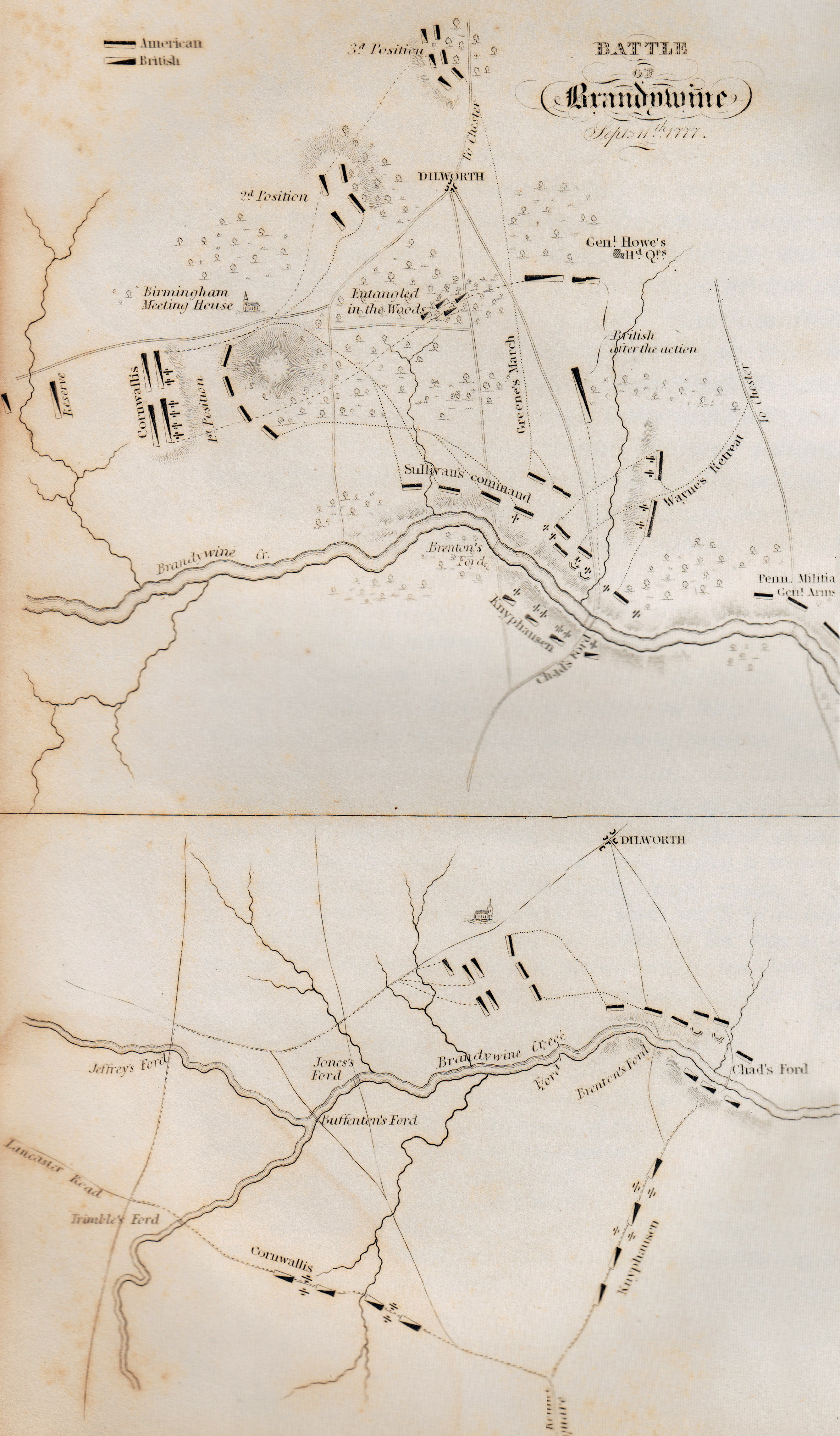 The Battle of Brandywine September 11, 1777. (steel engraving)